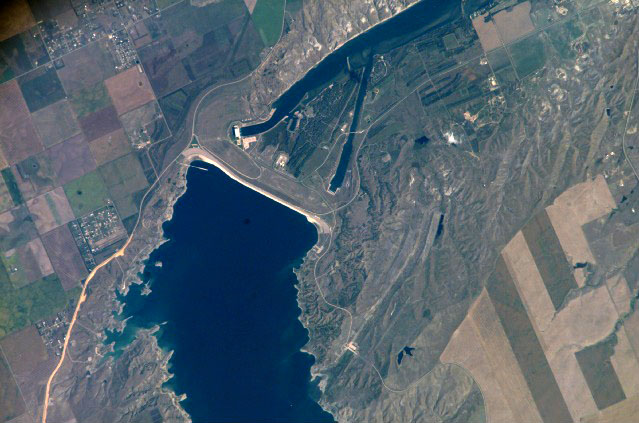 Astronaut Photography of Pierre South Dakota taken from the International Space Station (ISS)